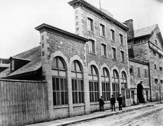 Molson Brewery circa 1885